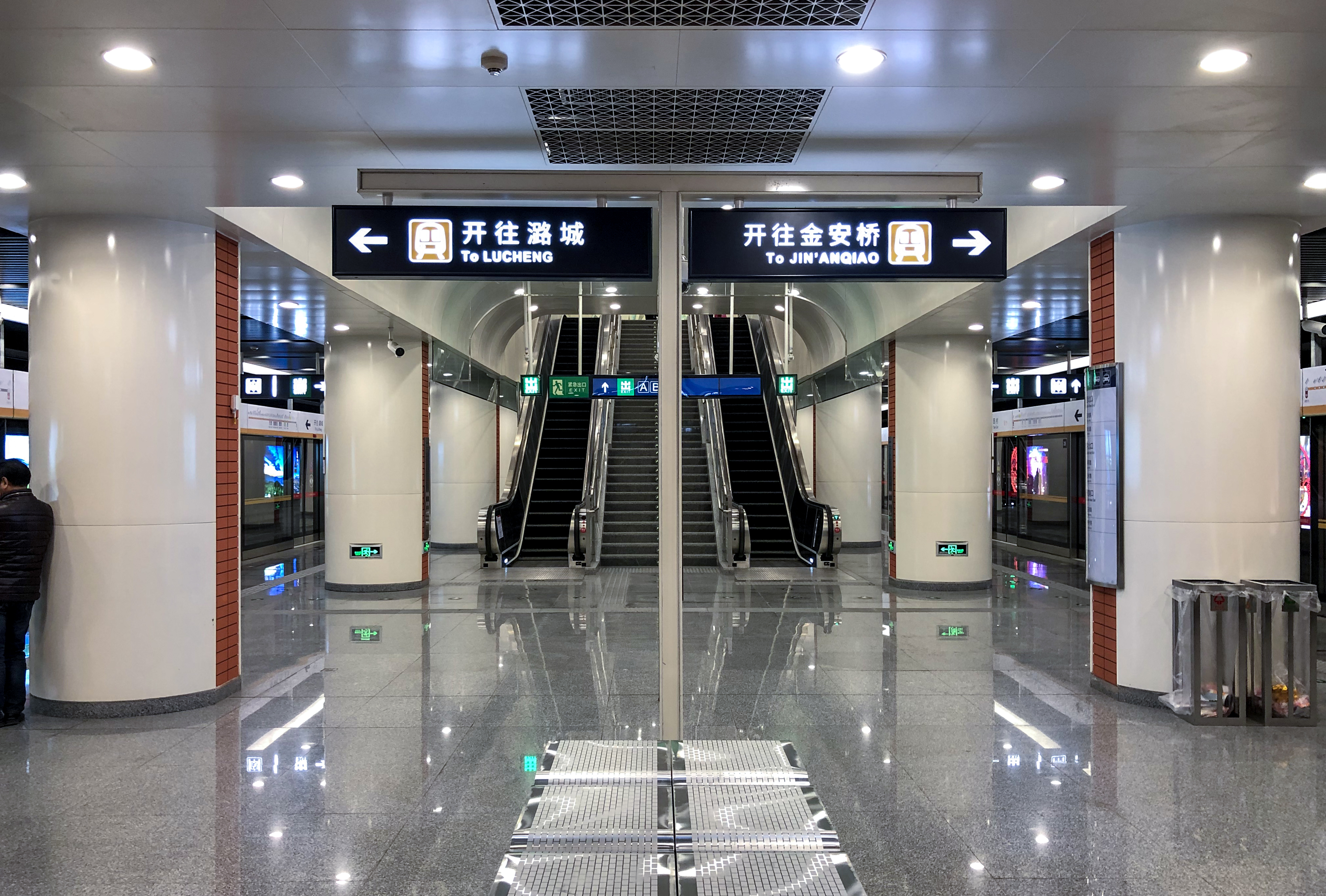 Didn't find the Line 3 threshold.